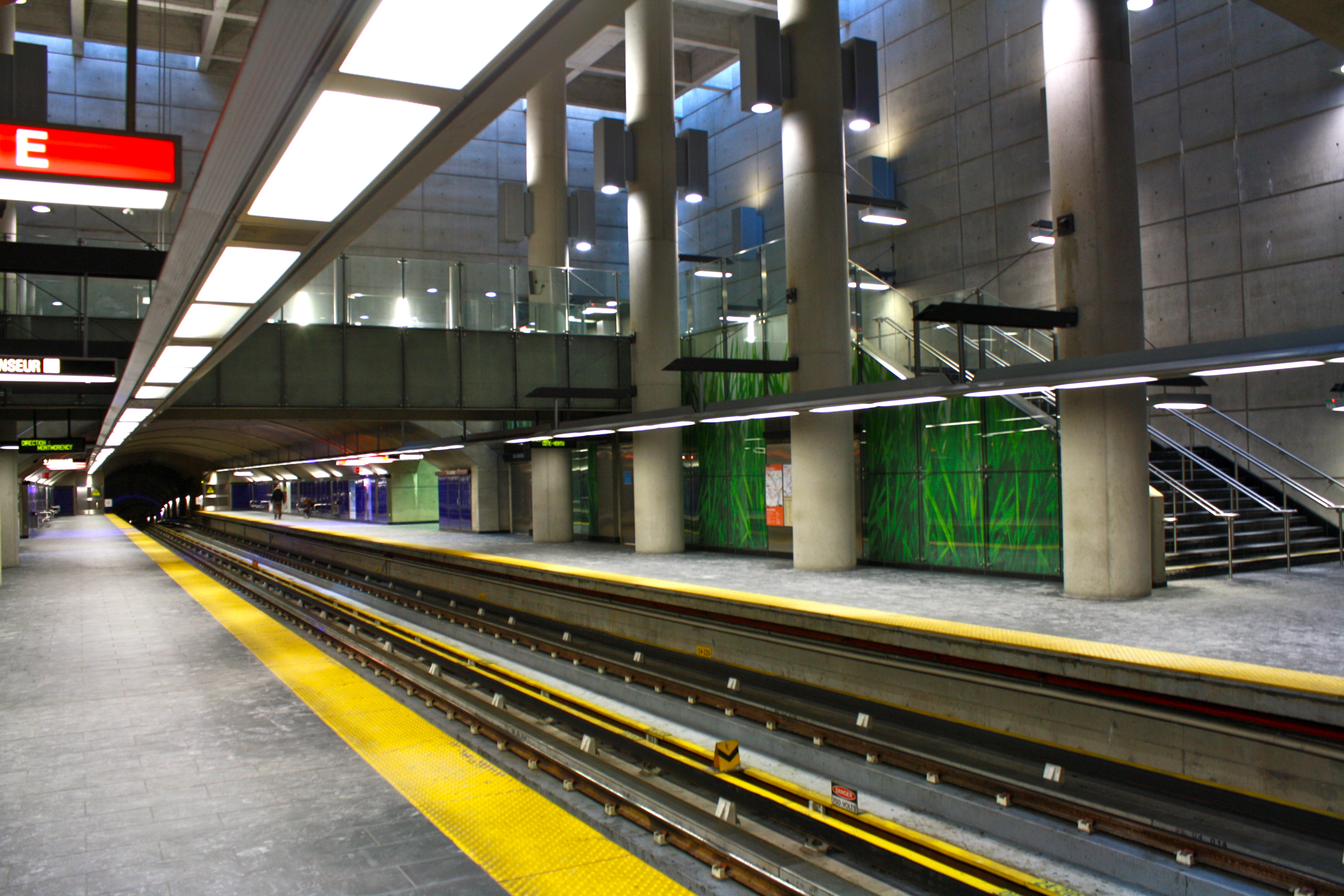 De La Concorde Metro station platform.